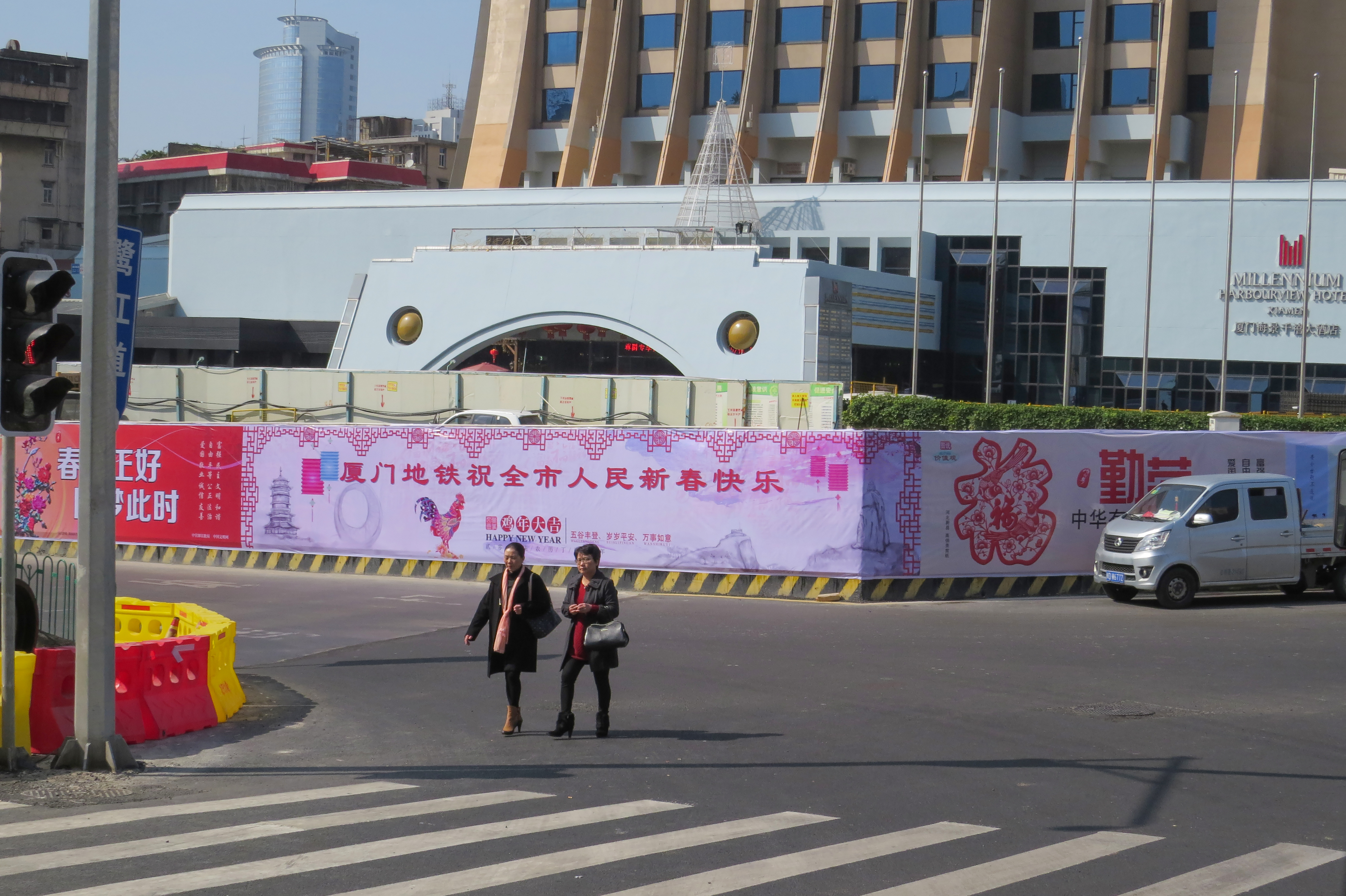 Zhenhailu Station is the terminus of Xiamen Rail Transit Line 1.